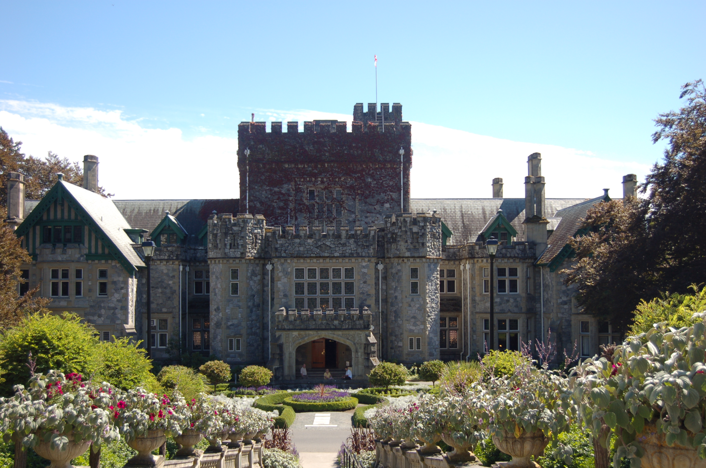 Hatley Castle, near Victoria, British Columbia. The castle has been used as "Luthor mansion" in the television show Smallville and as "Professor Xavier's School for Gifted Youngsters" in the X-Men films.